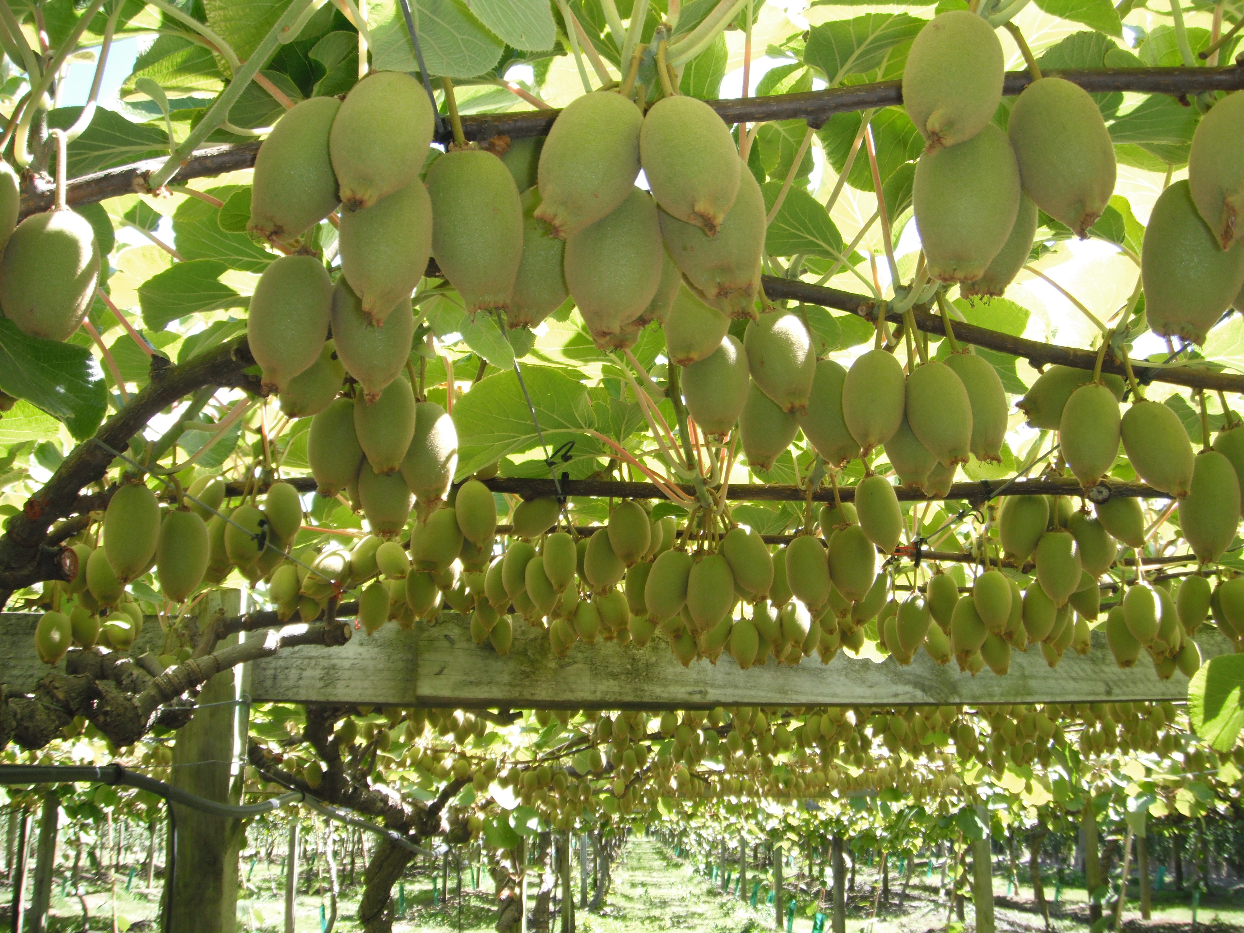 kiwifruit growing